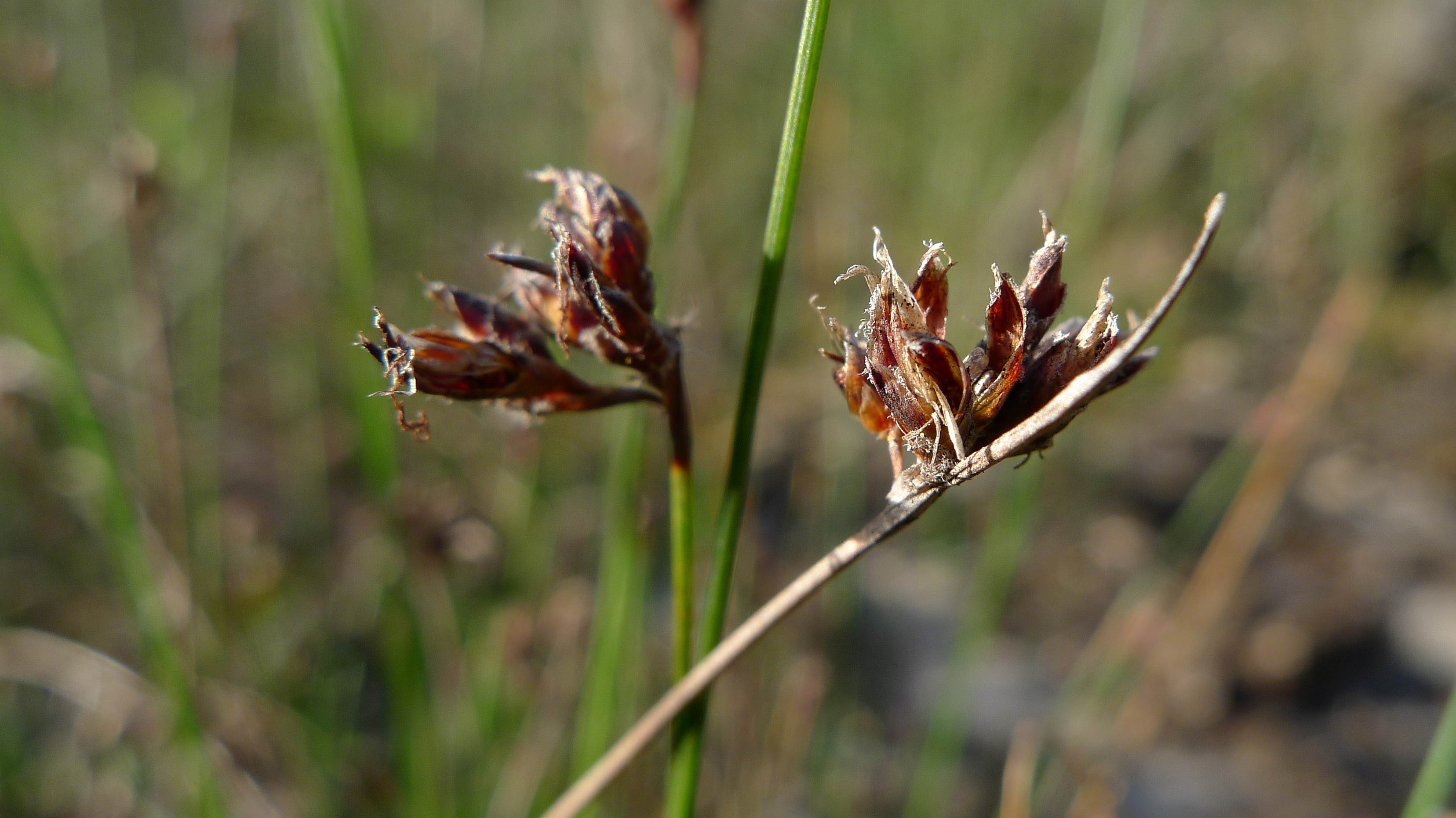 Heath Bog-rush, Schoenus ericetorum, with woolly margins on the bracts. Heathcote National Park, NSW Australia, May 2013.